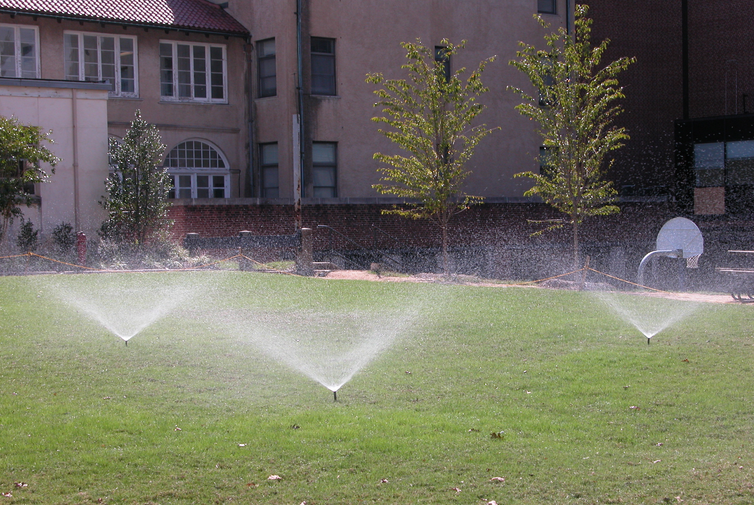 Lawn sprinklers in operation at the North Carolina School of Science and Mathematics in Durham, North Carolina.